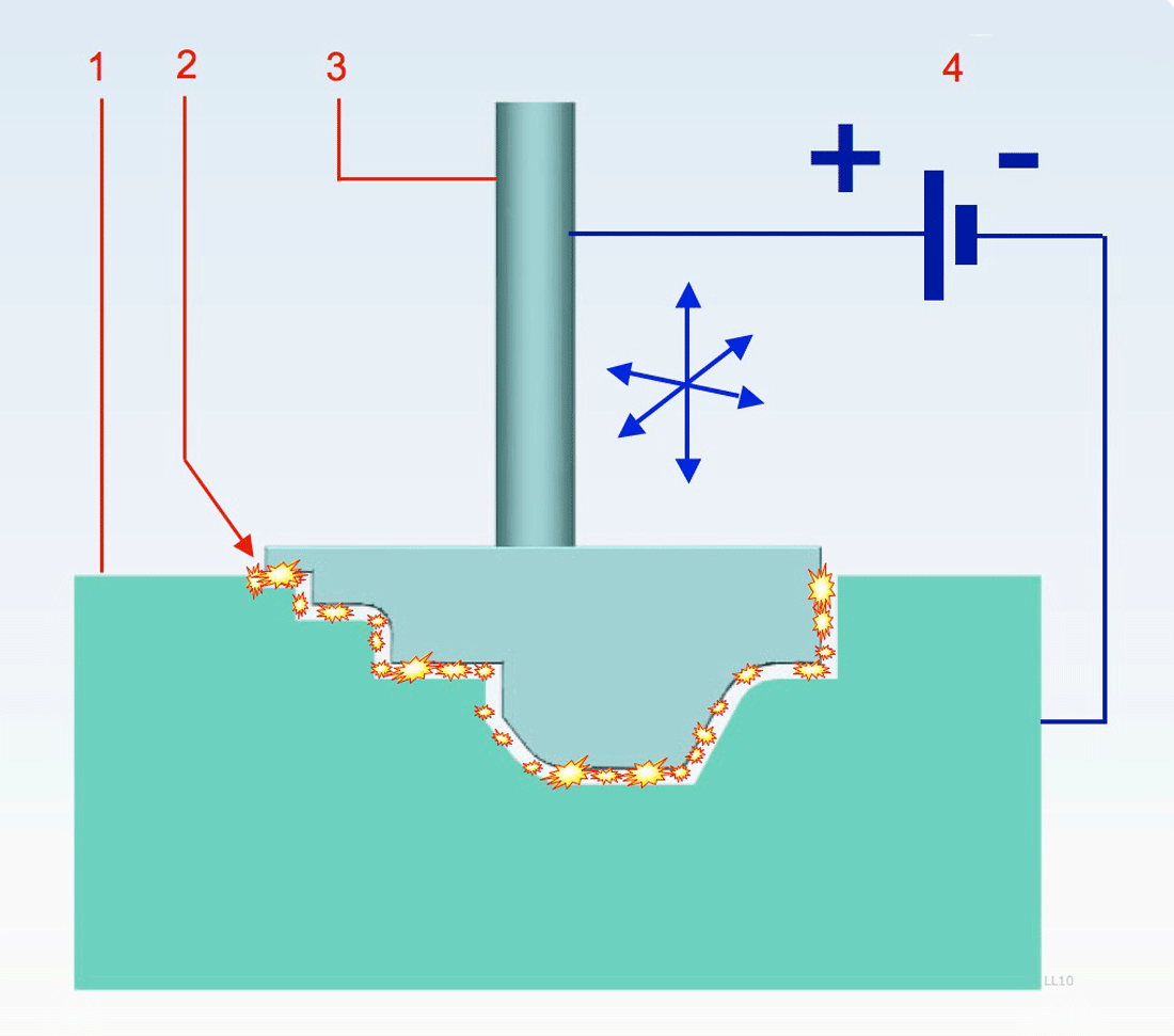 Spark eroding principle drawing: 1 Work piece, 2 Electrical discharge erosion (Electric arc), 3 Movable electrode (profile shape), 4 Electrical potential.